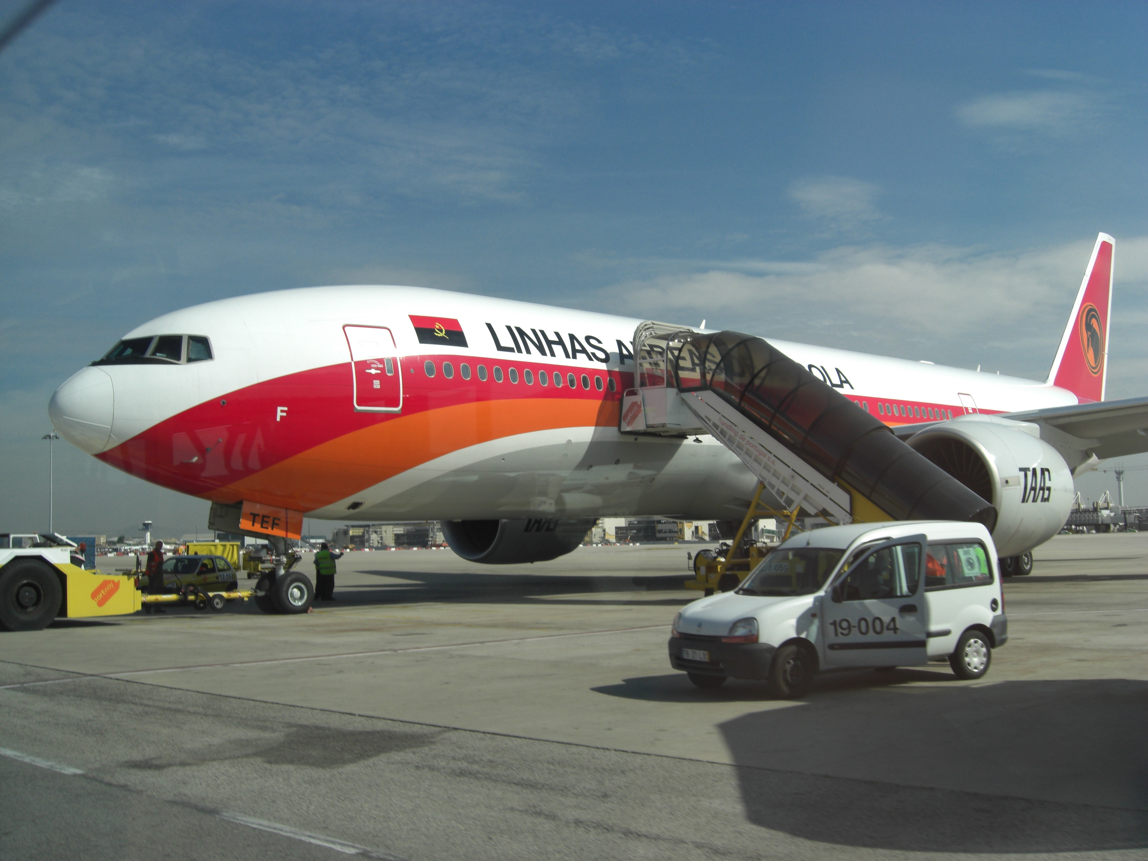 TAAG Angolan Airlines Boeing 777-200ER on the tarmac at Lisbon Portela Airport, 02 October 2009